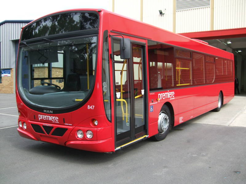 Premiere Travel 847 (FJ09 NZK), a MAN A22/Wright Meridian bus (built 2009), seen before it was registered and entered service It looks like it is outside a factory of some sort, maybe the Wrightbus one in Northern Ireland.